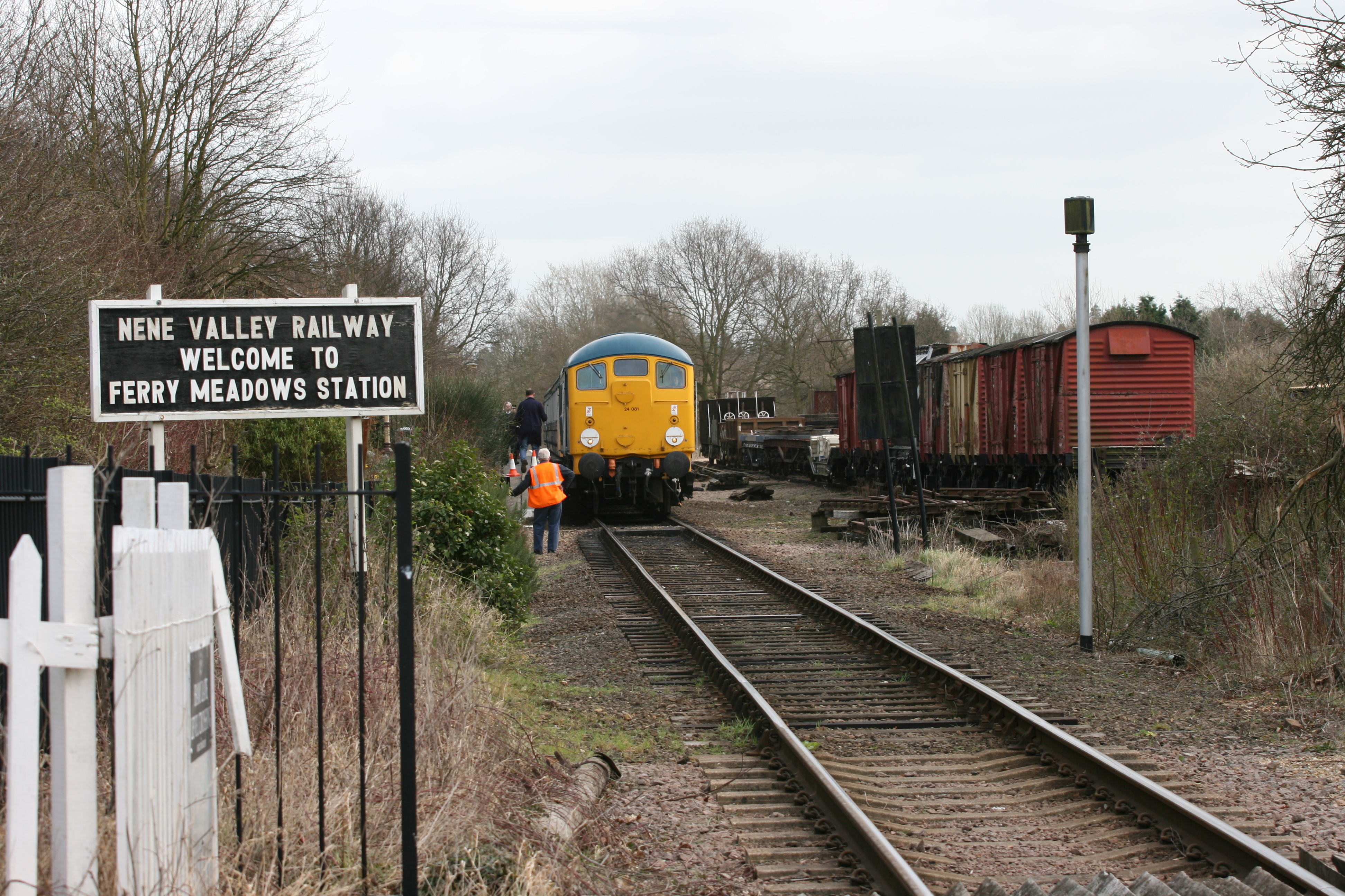 British Rail Class 24 no. 24081, a privately owned resident of the Gloucestershire Warwickshire Railway, prepares to depart from Ferry Meadows railway station on the Nene Valley Railway as part of the March 2008 Diesel Gala.